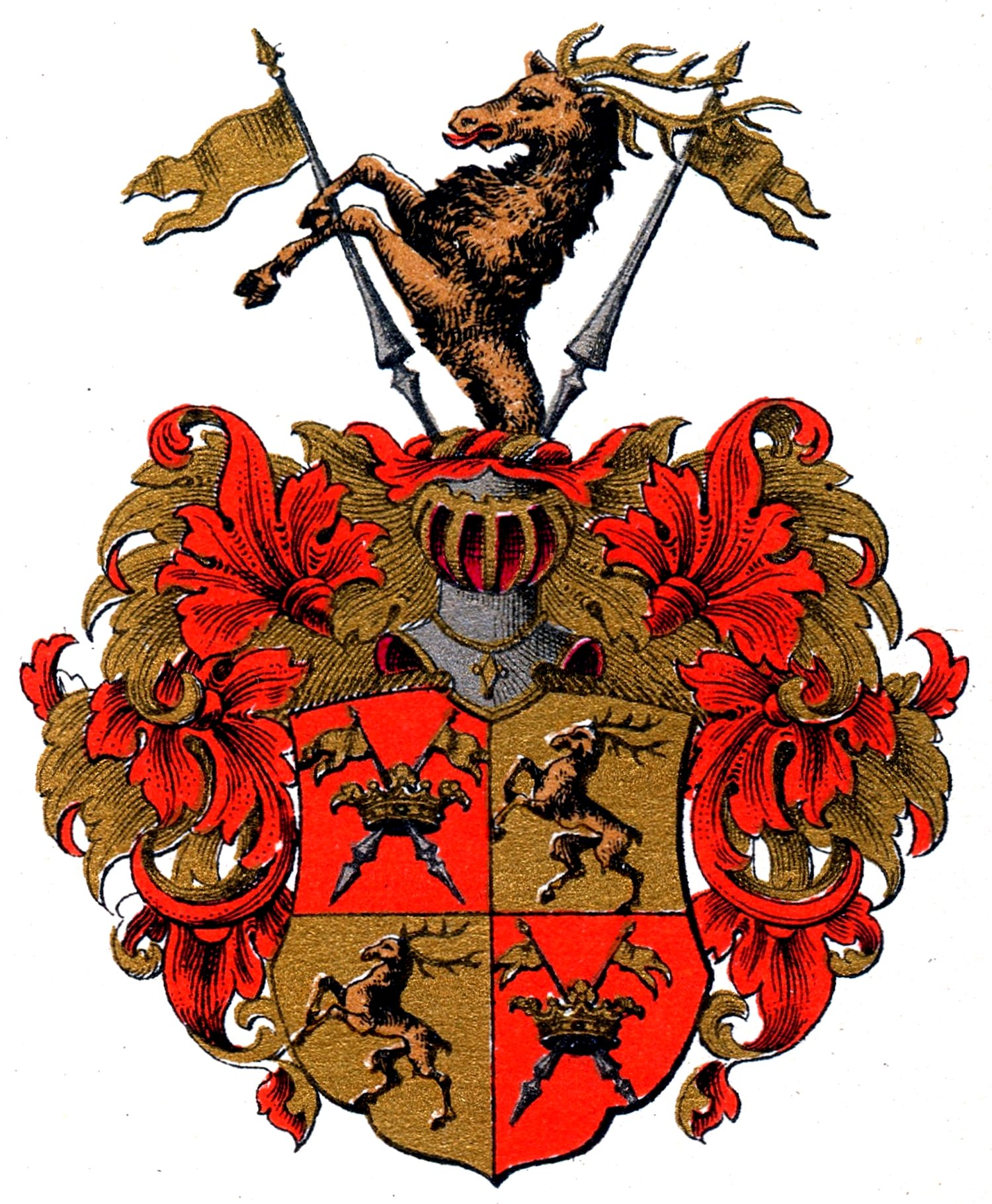 Aminoff-suvun vaakuna